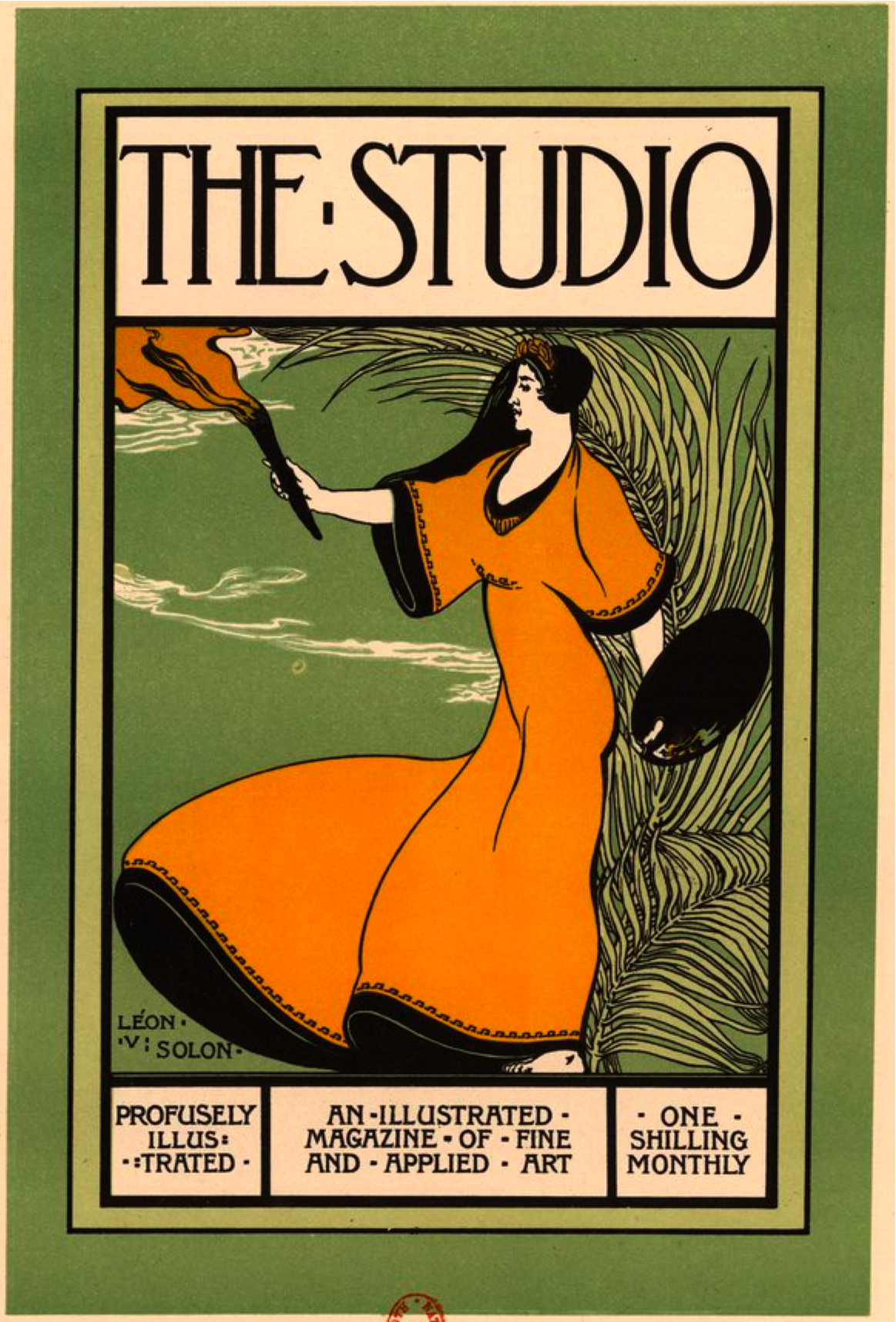 Lithographic fac simile of the poster The Studio designed by Léon V. Solon (London ?).